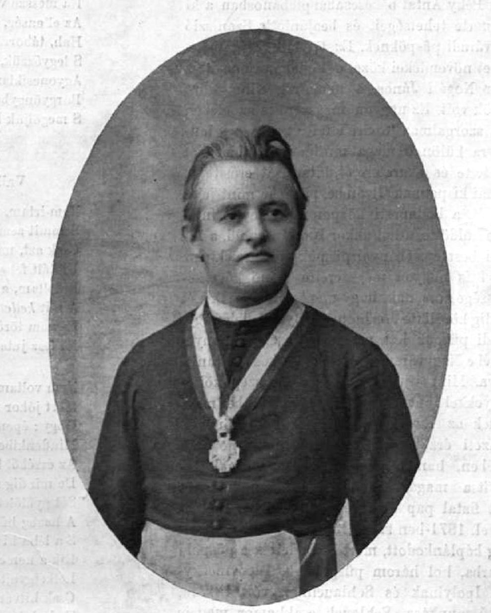 Farkas Radnai